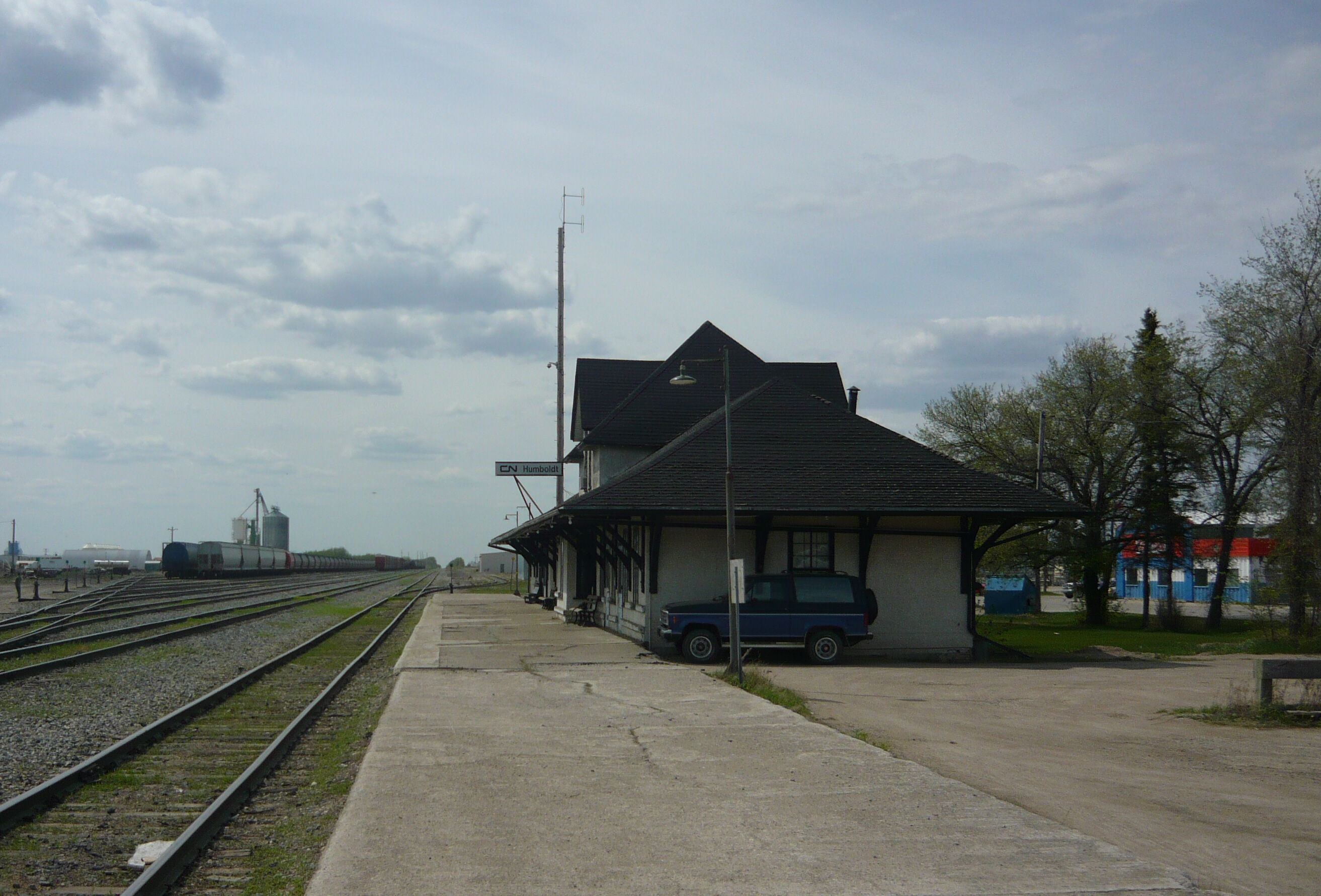 Canadian National Railway train station in Humboldt, Saskatchewan, Canada. Built 1905 by Canadian Northern Railway, one of the predecessor companies of Canadian National Railway. It has been designated as a Heritage Railway Station by the Historic Sites and Monuments Board of Canada.